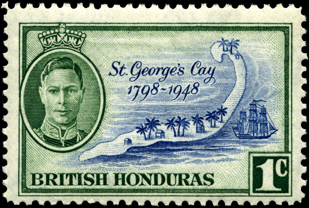 British Honduras 1c stamp of 1948, St. George's Cay